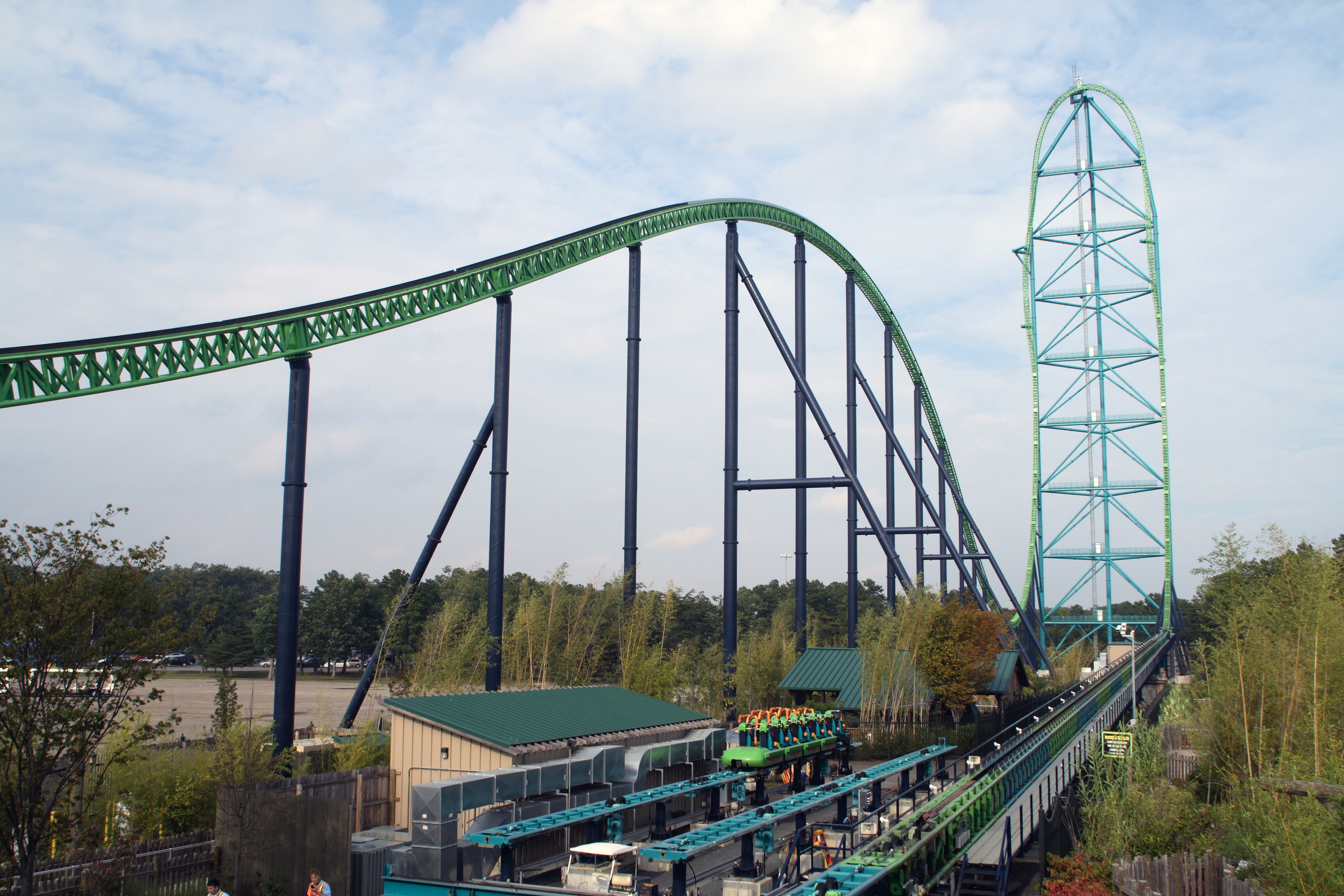 Kingda Ka, the world's tallest roller coaster.Its pretty awesome